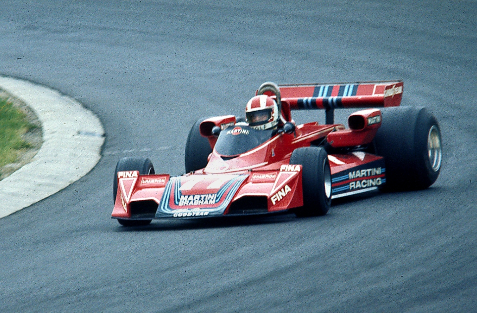 Brabham BT45-Alfa Romeo (Rolf Stommelen) at the 1976 German GP